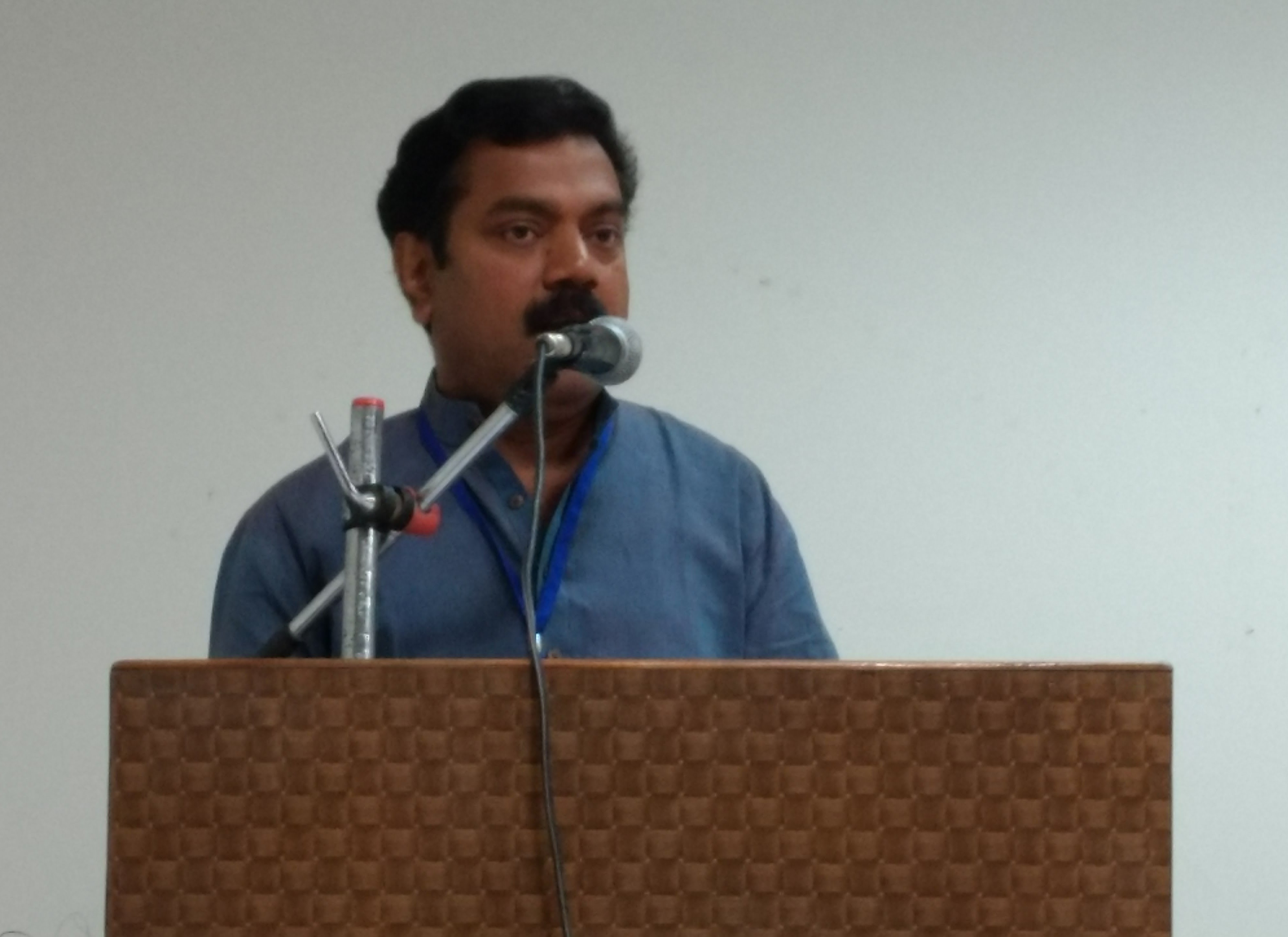 Subhash Chandran, Mumbai 2018